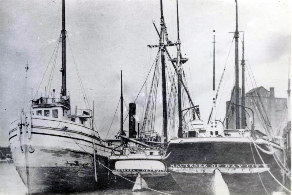 The steamer S.C. Baldwin prior to her sinking